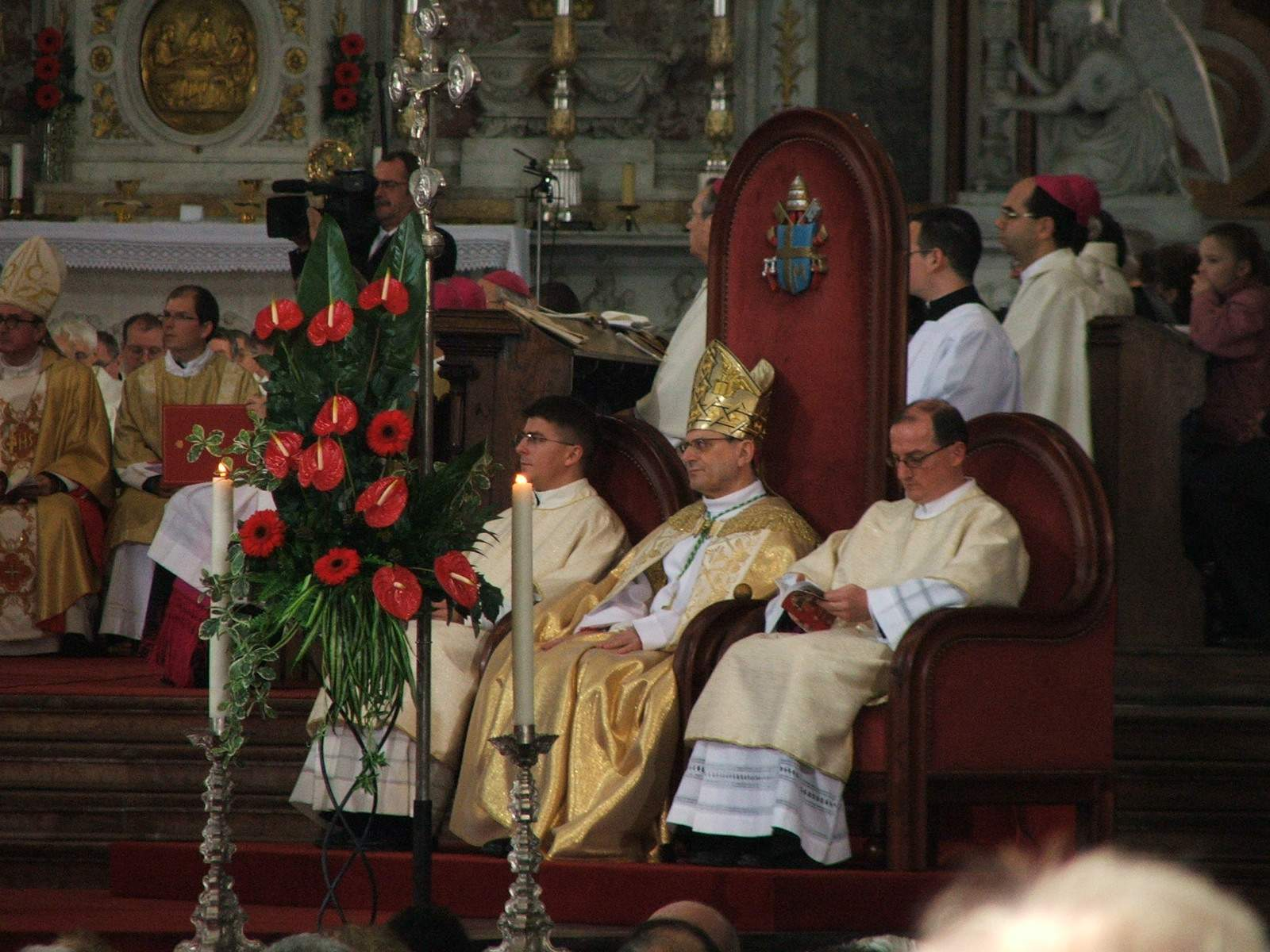 Beatification ceremony of Zoltán Meszlényi